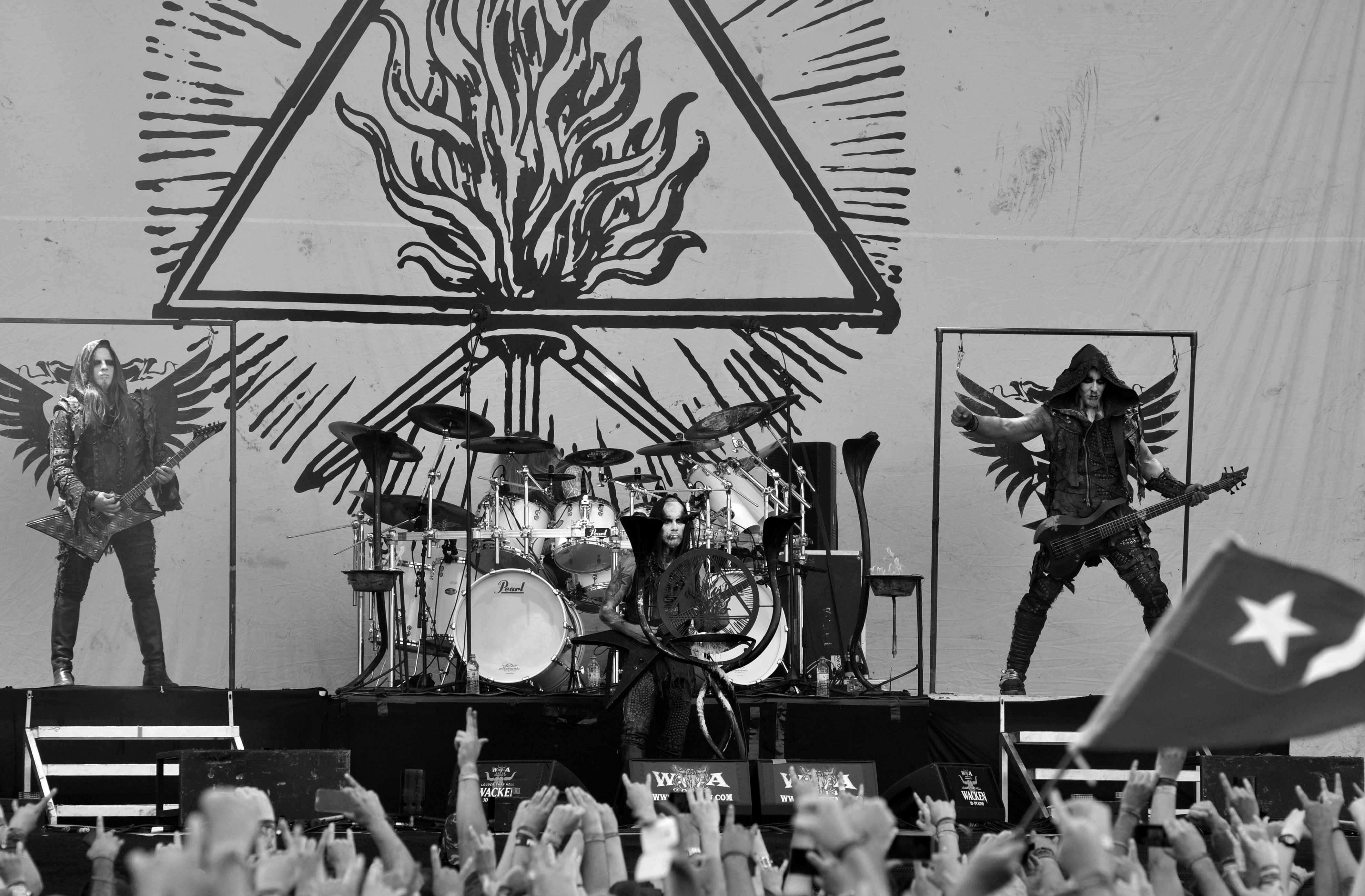 Behemoth at Wacken Open Air 2014